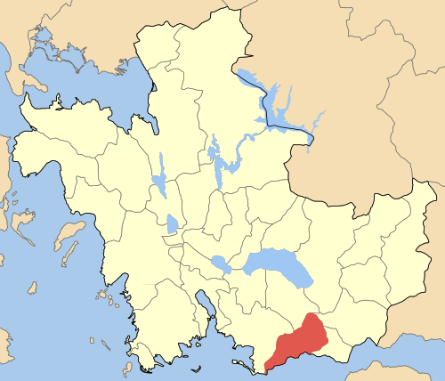 Locator map of Halkeias municipality (Δήμος Χάλκειας) at Aitoloakarnania perfecture, Greece.